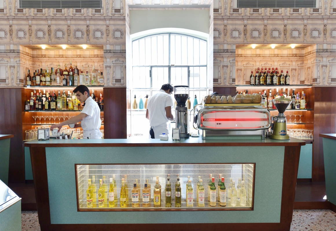 Fondazione PRADA, Via Ripamonti - Largo Isarco area, Bar Luce, 50s lifestyle Milano design by Wes Anderson